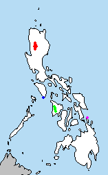 Distribution of the rodent genus Crateromys in the Philippines. Red: Crateromys schadenbergi (Luzon) Blue: Crateromys paulus (Ilin, near Mindoro) Green: Crateromys heaneyi (Panay) Magenta: Crateromys australis (Dinagat)